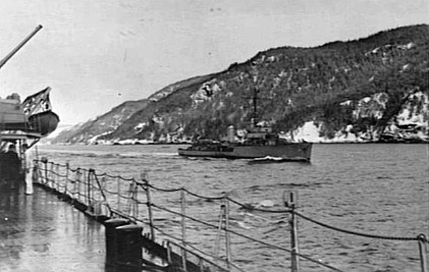 A German destroyer escorting the heavy cruiser Admiral Hipper. The Hipper and the four destroyers Z 5 Paul Jacobi, Z 6 Theodor Riedel, Z 8 Bruno Heinemann and Z 16 Friedrich Eckholdt transported 1.200 troops of the Gebirgsjäger-Regiment 138 (138th Mountaineer Regiment) to Trondheim, Norway, in April 1940. Note: In the original description the destroyer is identified as Z 2 Georg Thiele which was not part of the Hipper screen, but scuttled at Narvik.